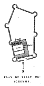 Original caption in